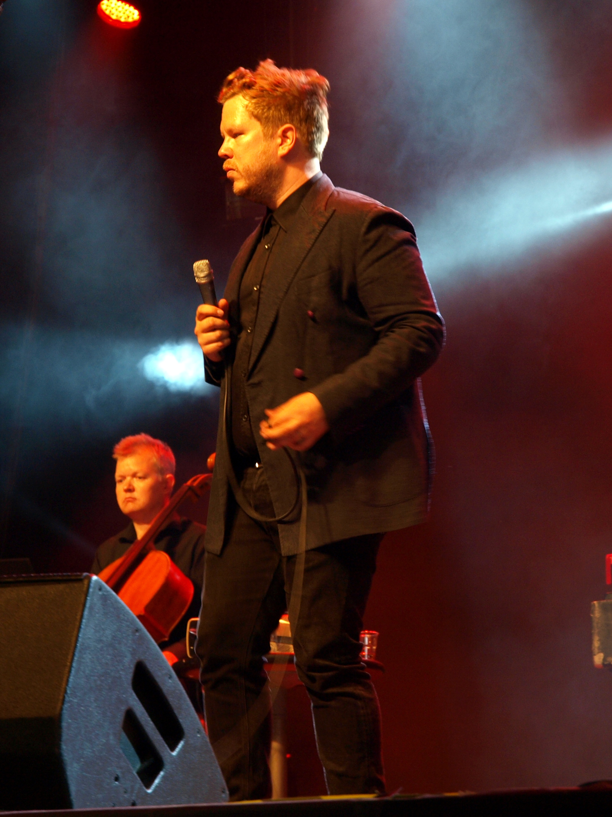 Finnish band Samae Koskisen Ekstravahva korvalääke live at Provinssirock 2013